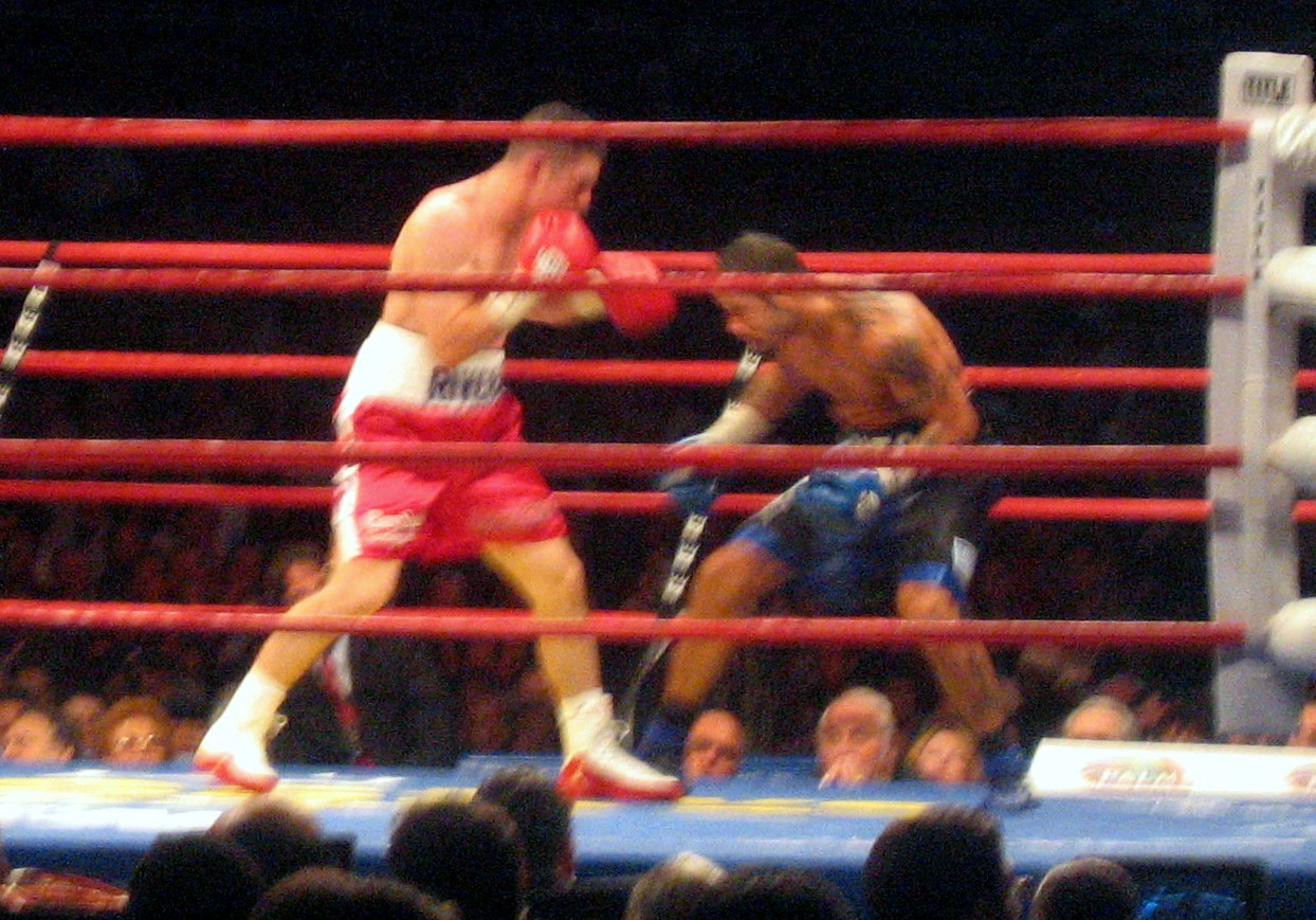 José Antonio Rivera (on the left) vs. Daniel Santos at the Madison Square Garden on October 6, 2007.